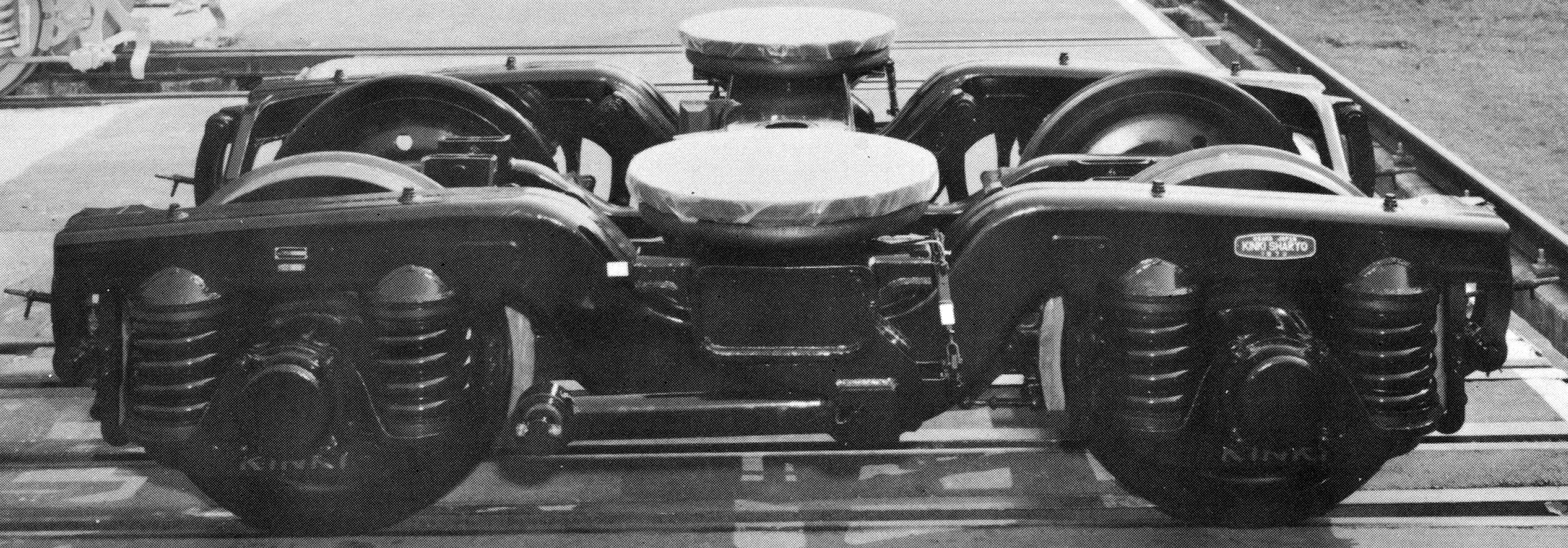 TRA Bogie TR50, made by Kinki Sharyo(Japan)